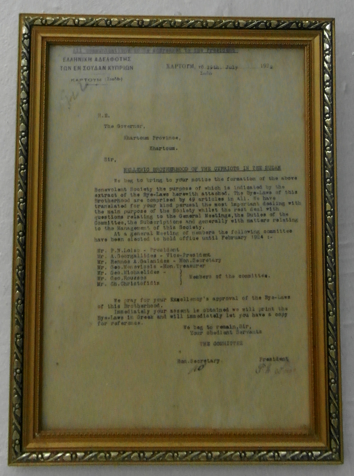 1922 letter of the Hellenic Bortherhood of the Cypriots in the Sudan to the British Governor General in Khartoum asking for official recognition, framed on the walls of the ceremony hall of the Hellenic Community in Khartoum